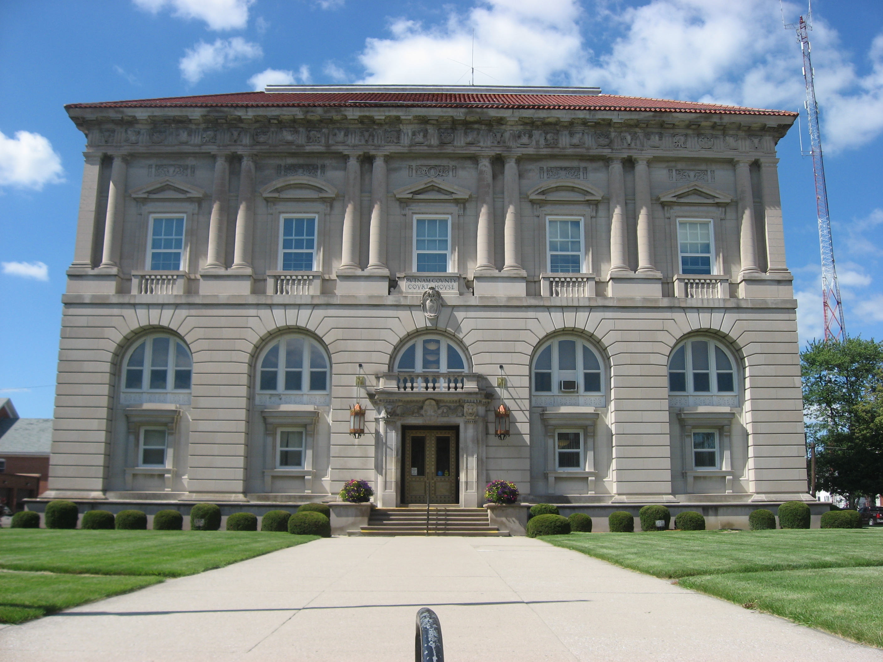 Southern side of the Putnam County Courthouse, located at 245 E. Main Street (U.S. Route 224) in downtown Ottawa, Ohio, United States. Built in 1912, it is listed on the National Register of Historic Places.